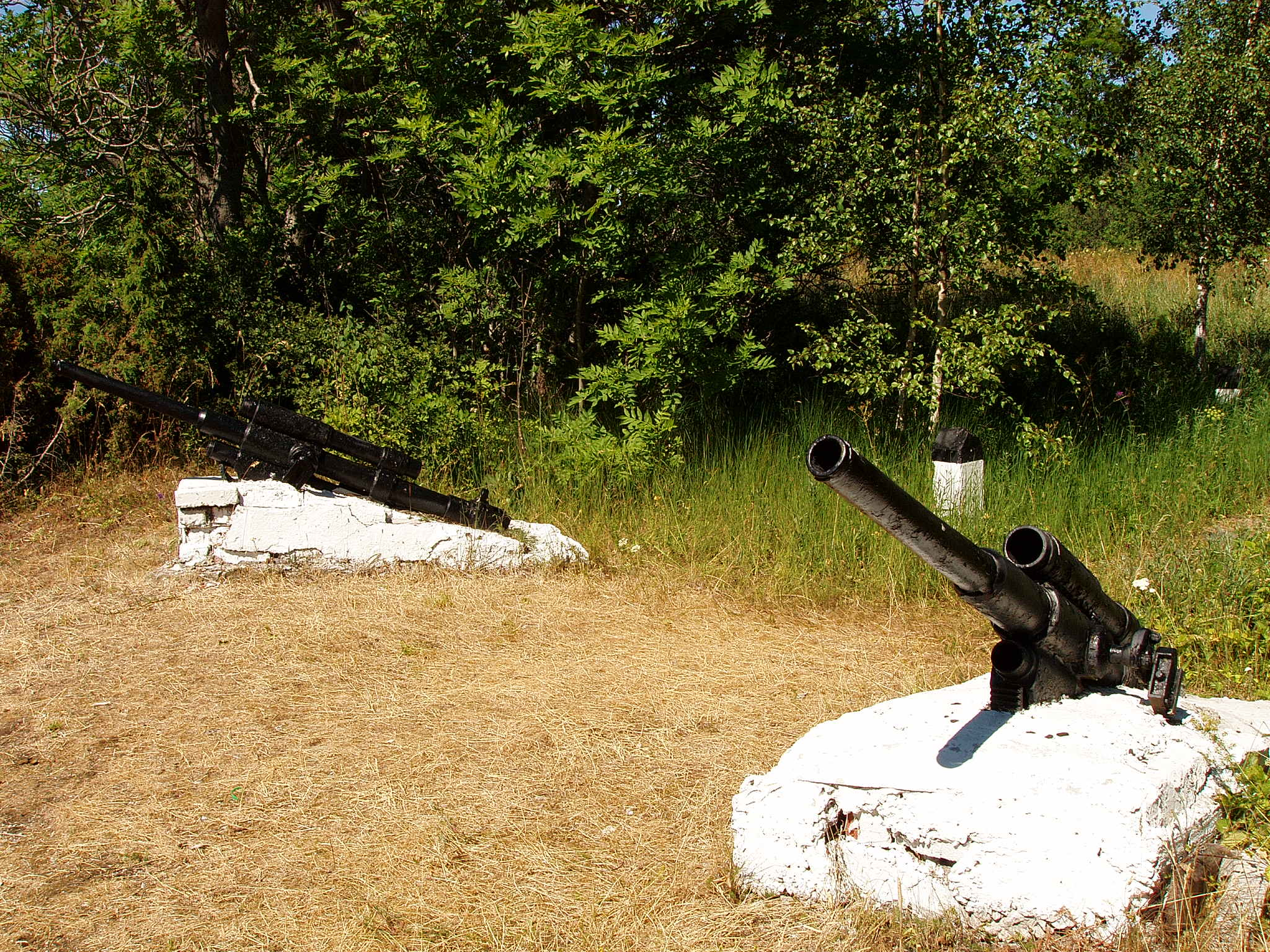 Soldiers' memorial on the Estonian isle of Osmussaar